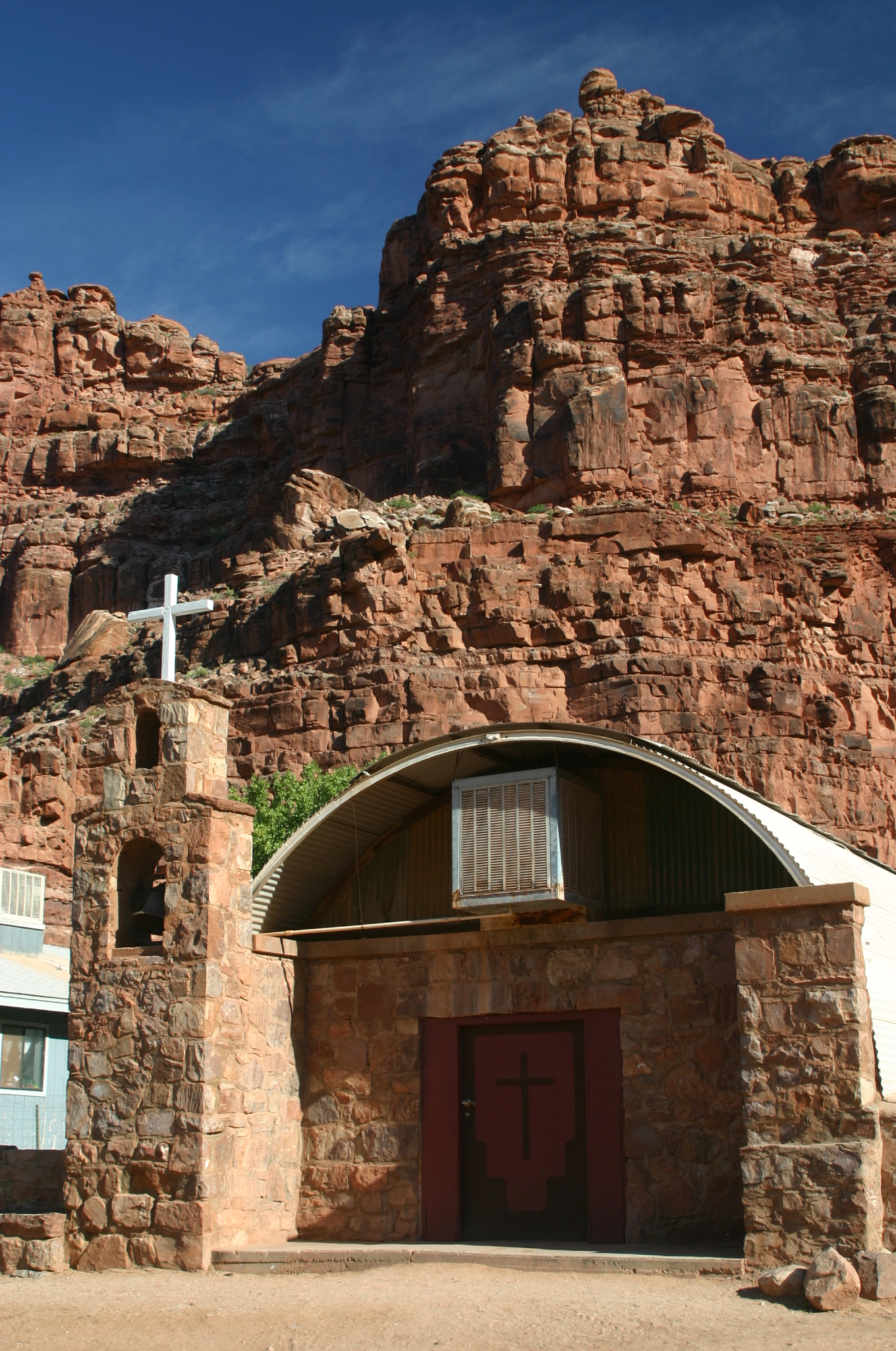 Nondenominational Bible church in Supai. Like everywhere in Supai, the red cliffs of the Grand Canyon tower above.